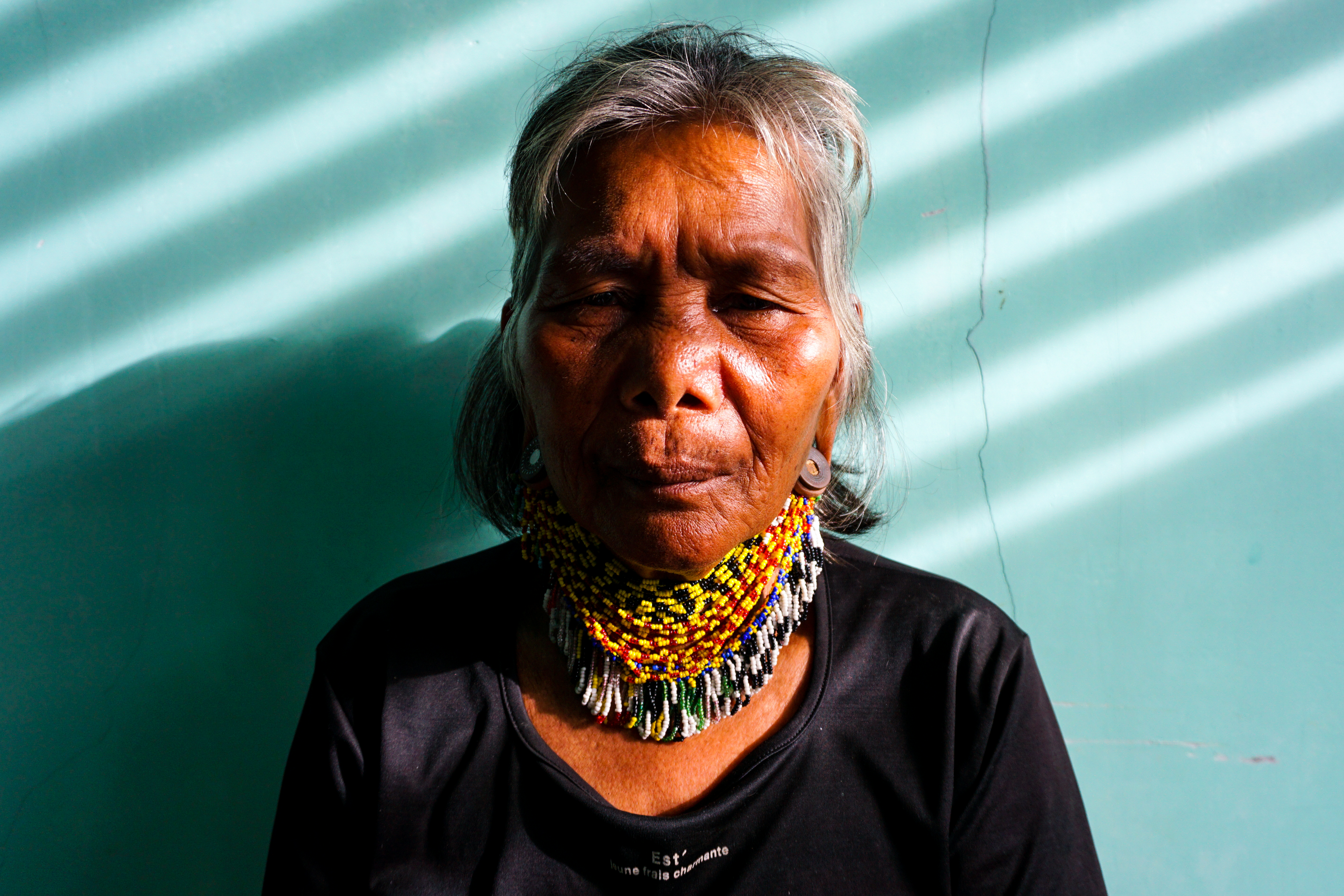 A Manobo Woman from Bukidnon in Digos City